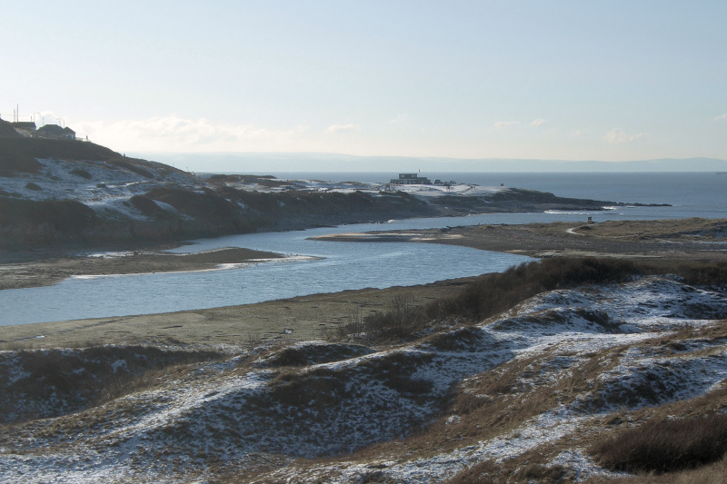 The Ogmore River approaching the Bristol Channel A view from Merthyr Mawr Warren showing the river approaching the Bristol Channel at Ogmore-by-Sea.